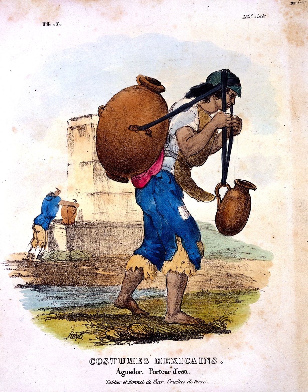 An aguador, or water-carrier Rare Books Keywords: American Collections